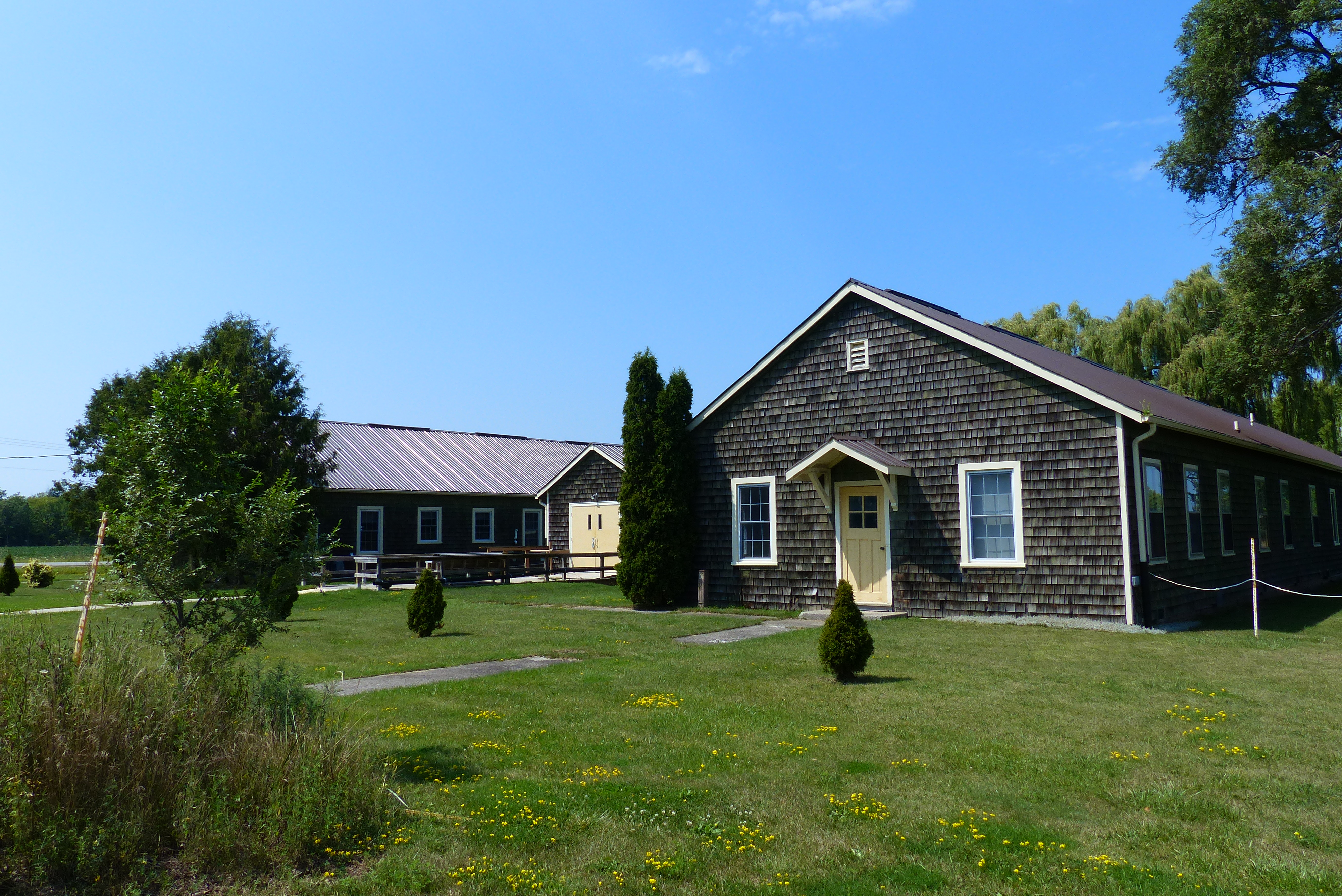 Royal Canadian Air Force H-Hut at the site of RCAF Cayuga, the R1 Relief Airfield for No. 16 SFTS, Hagervsille. The airfield is also known as "Kohler Airfield". The building is located at 1084 Kohler Road, Cayuga, Ontario. The H-Hut was one of the standard buildings used at BCATP airfields and these huts are seen in many wartime photographs. In 2014 this H-Hut is the Haldimand Agricultural Community Centre, and has been continuously used as a public building since World War II. The actual wartime use of this building is reported as "shrouded in mystery". This picture is published with the permission of the Haldimand Agricultural Community Centre Cooperation.